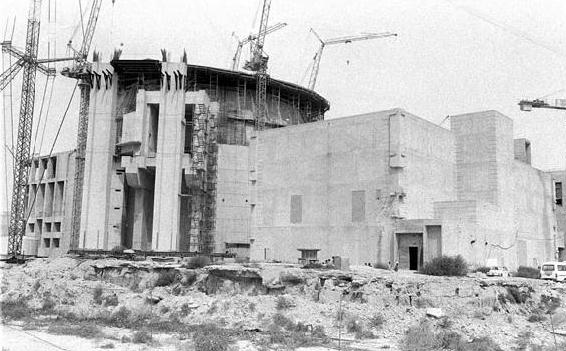 Bushehr_Nuclear_Power_Plant 2nd unit in the 1980s or even 90s after the german construction company had left the site (Aug.1, 1979).